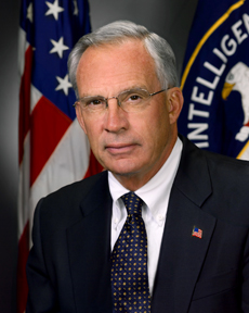 Porter J. Goss first Director of the Central Intelligence Agency, 21 April 2005.